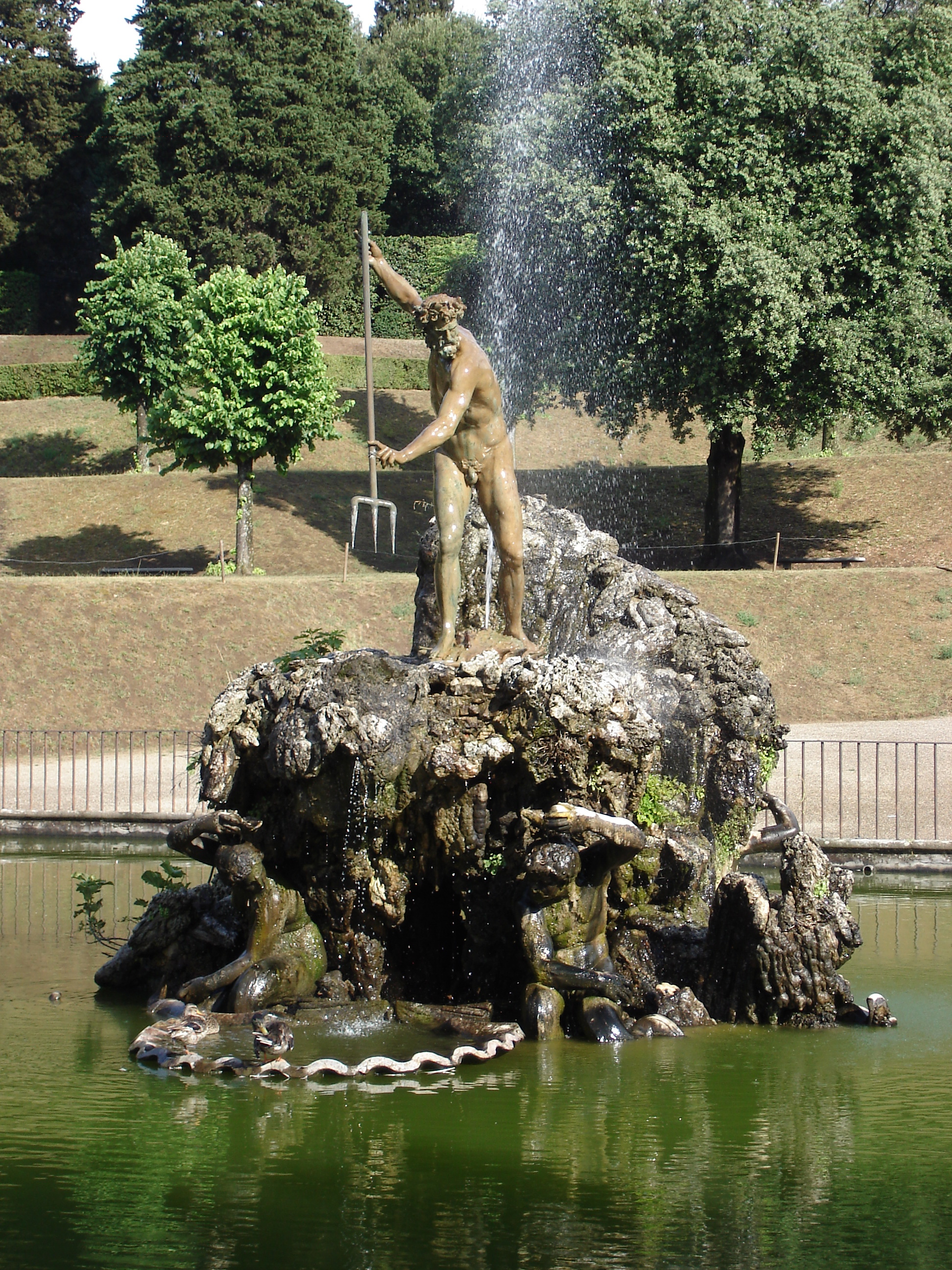 A three day trip to Florence.